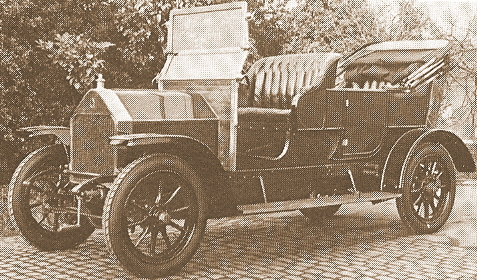 1910 Rothwell 25 hp tourer